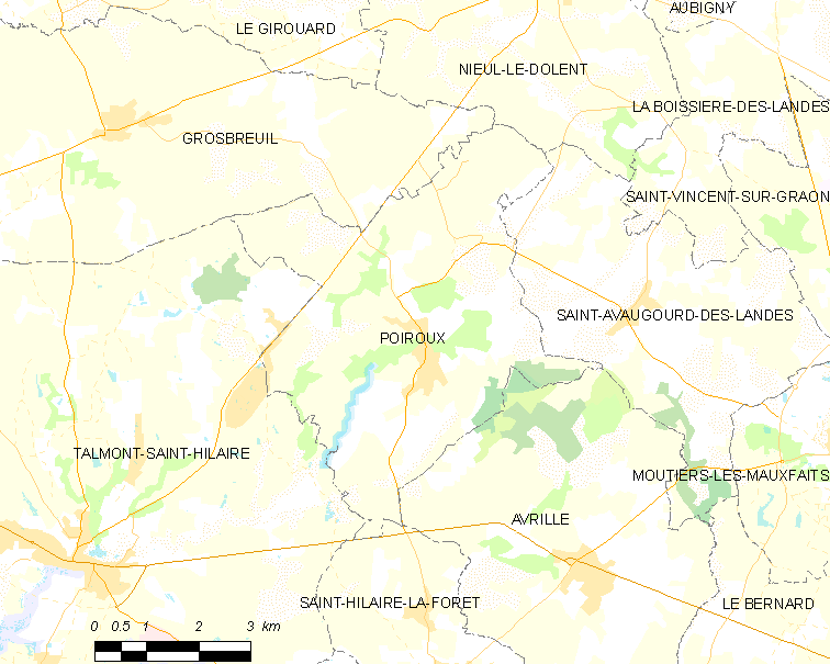 Map of French municipality Poiroux